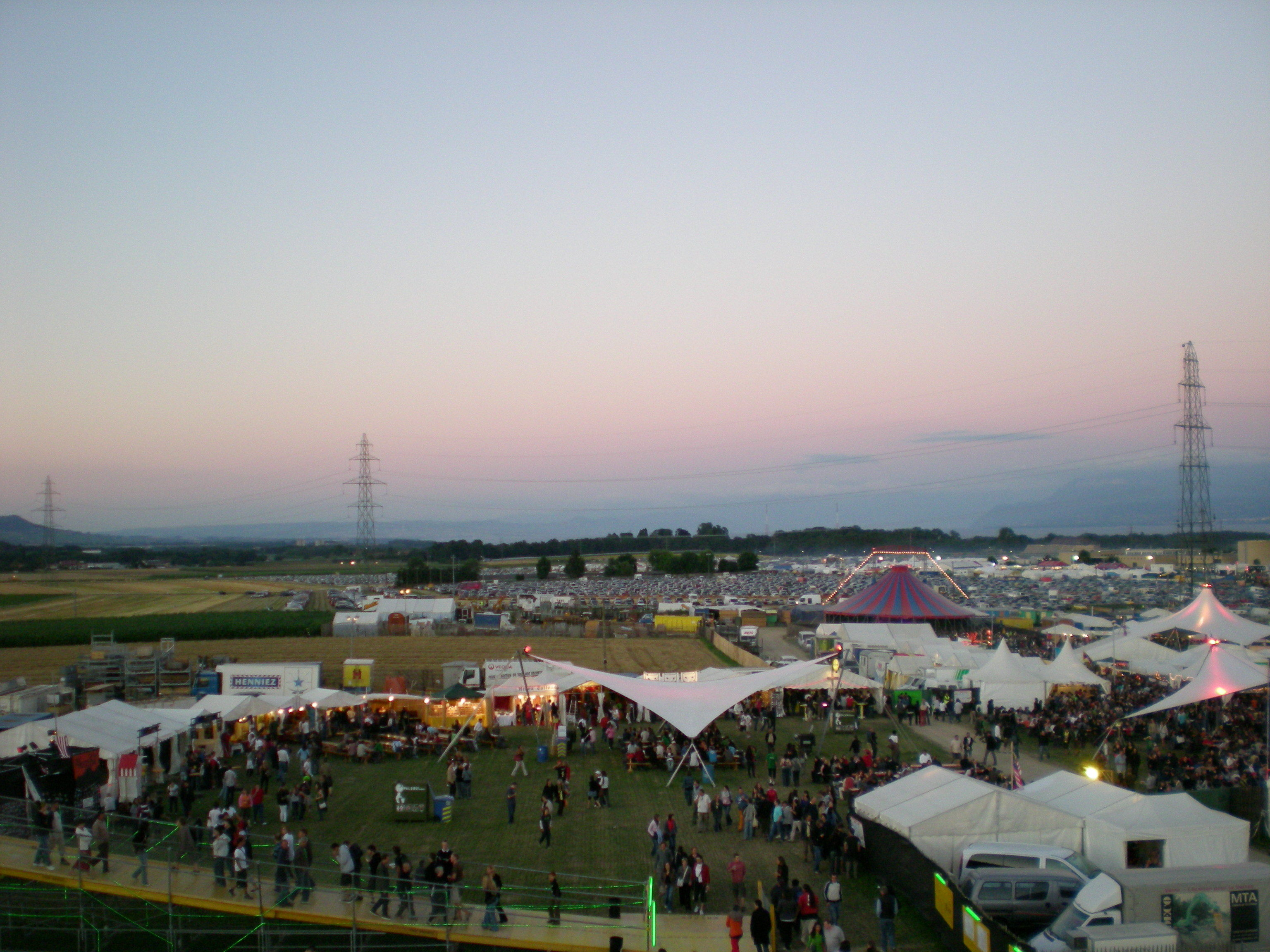 Festival Nyon 2008